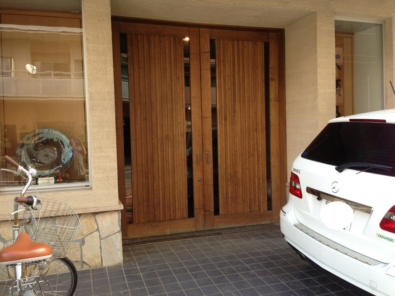 Front door of stable